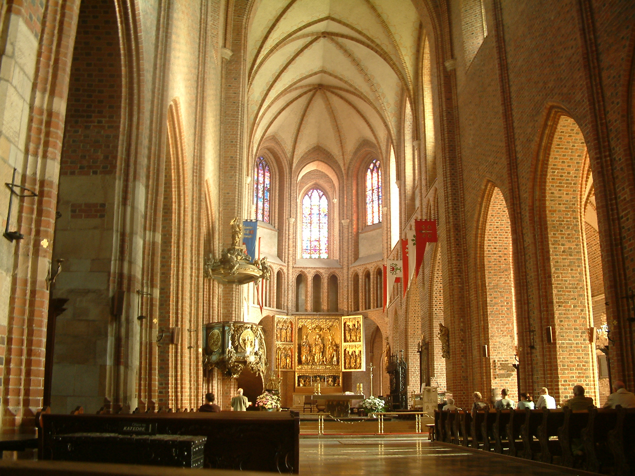 inside of Cathedral in Poznań